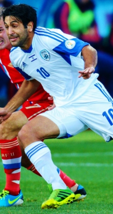 Elyaniv Barda